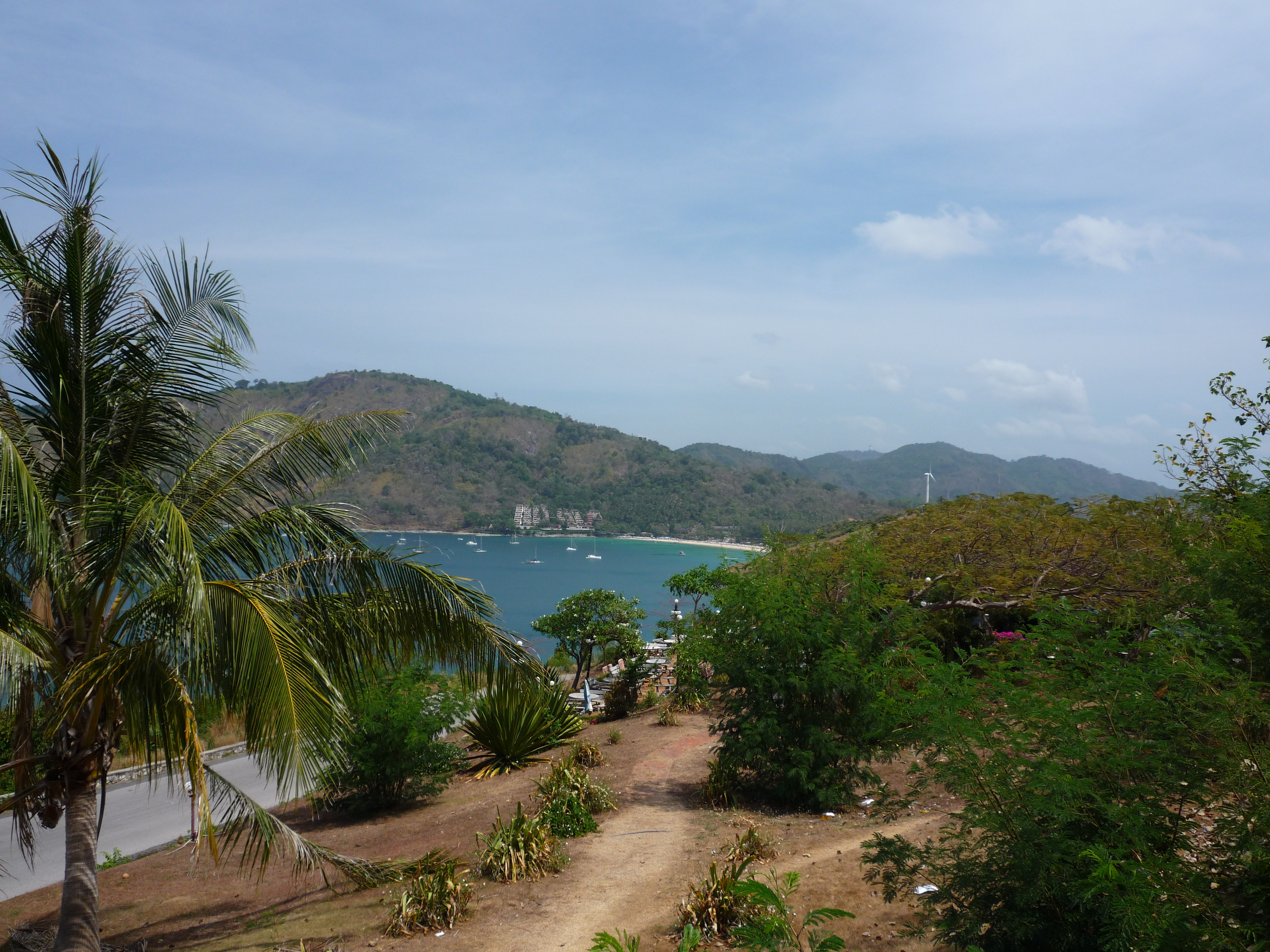 Promthep Cape